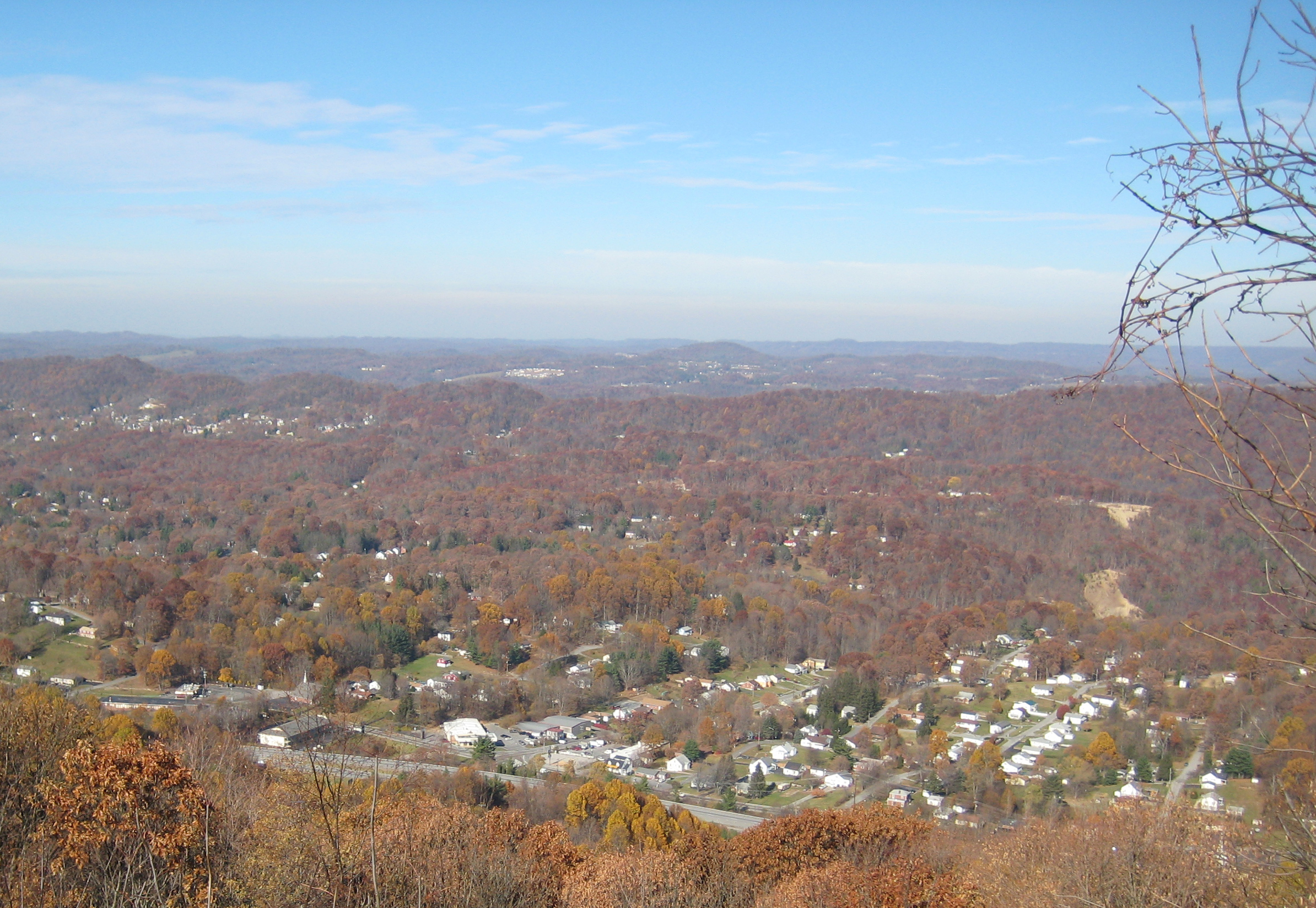 View of Bluefield, West Virginia from East River Mountain Overlook.